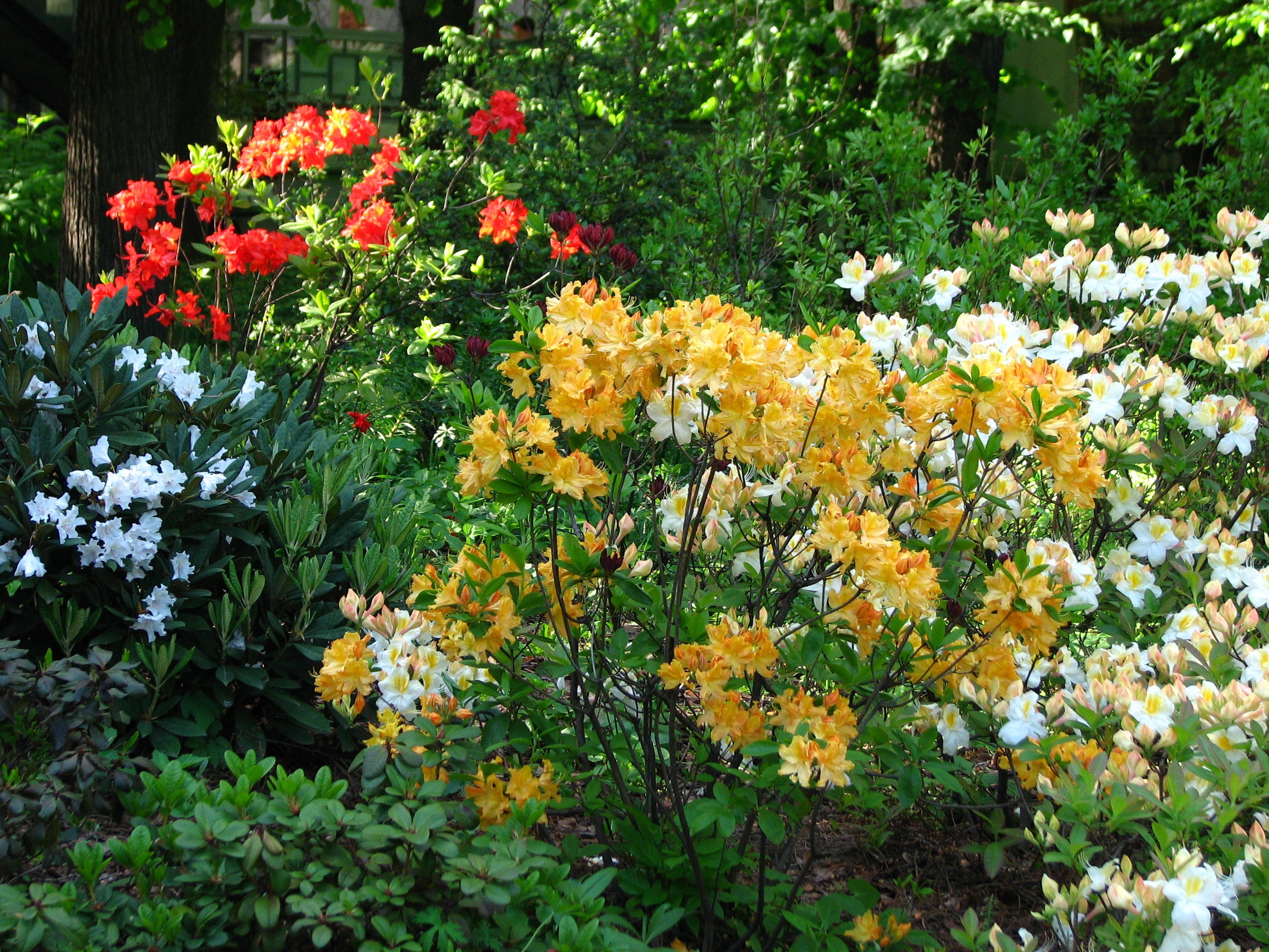 Rhododendrons in the botanical garden "Aptekarsky Ogorod'. Moscow.